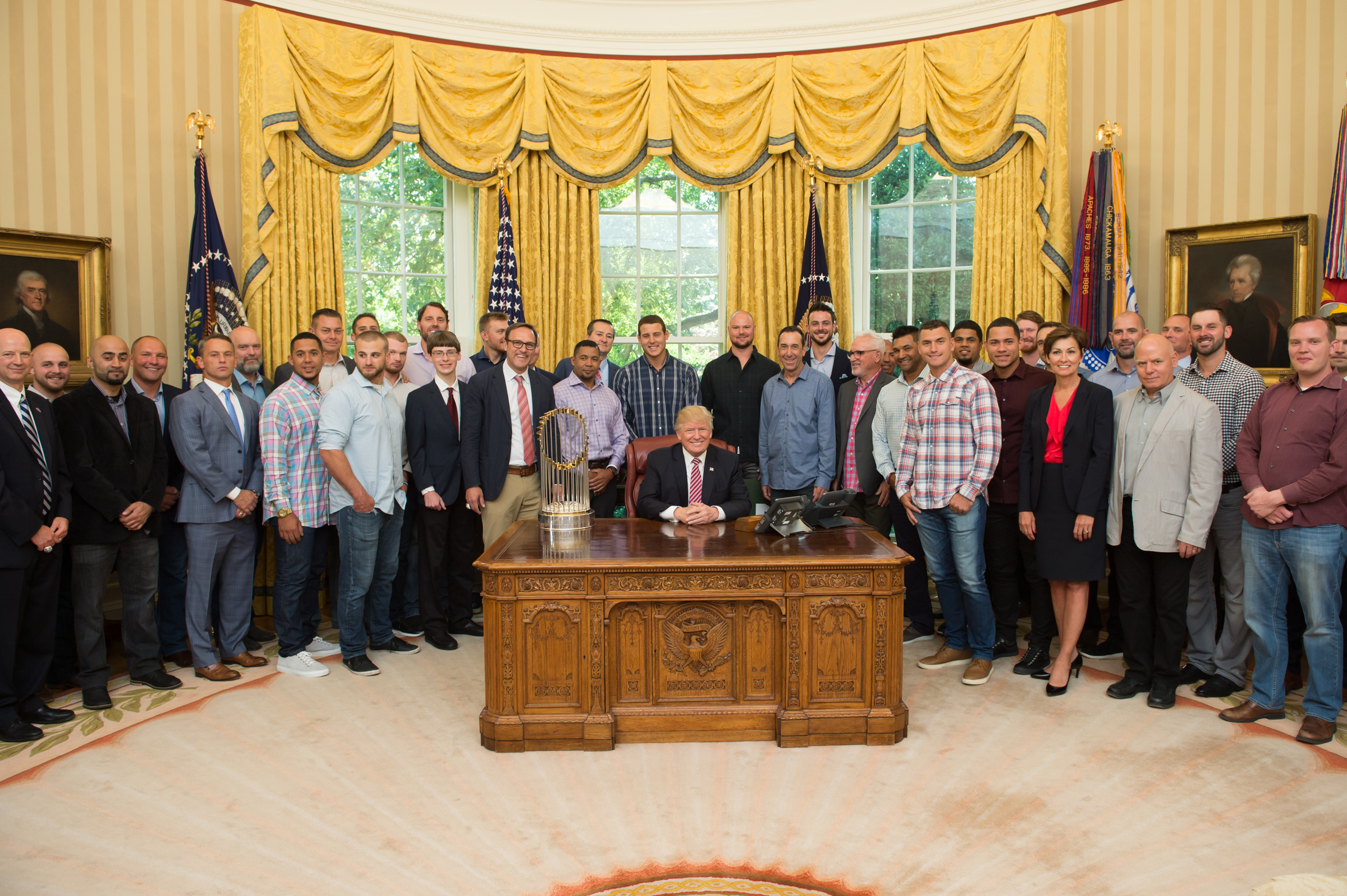 President Donald J. Trump and the 2016 World Series Champions, the Chicago Cubs